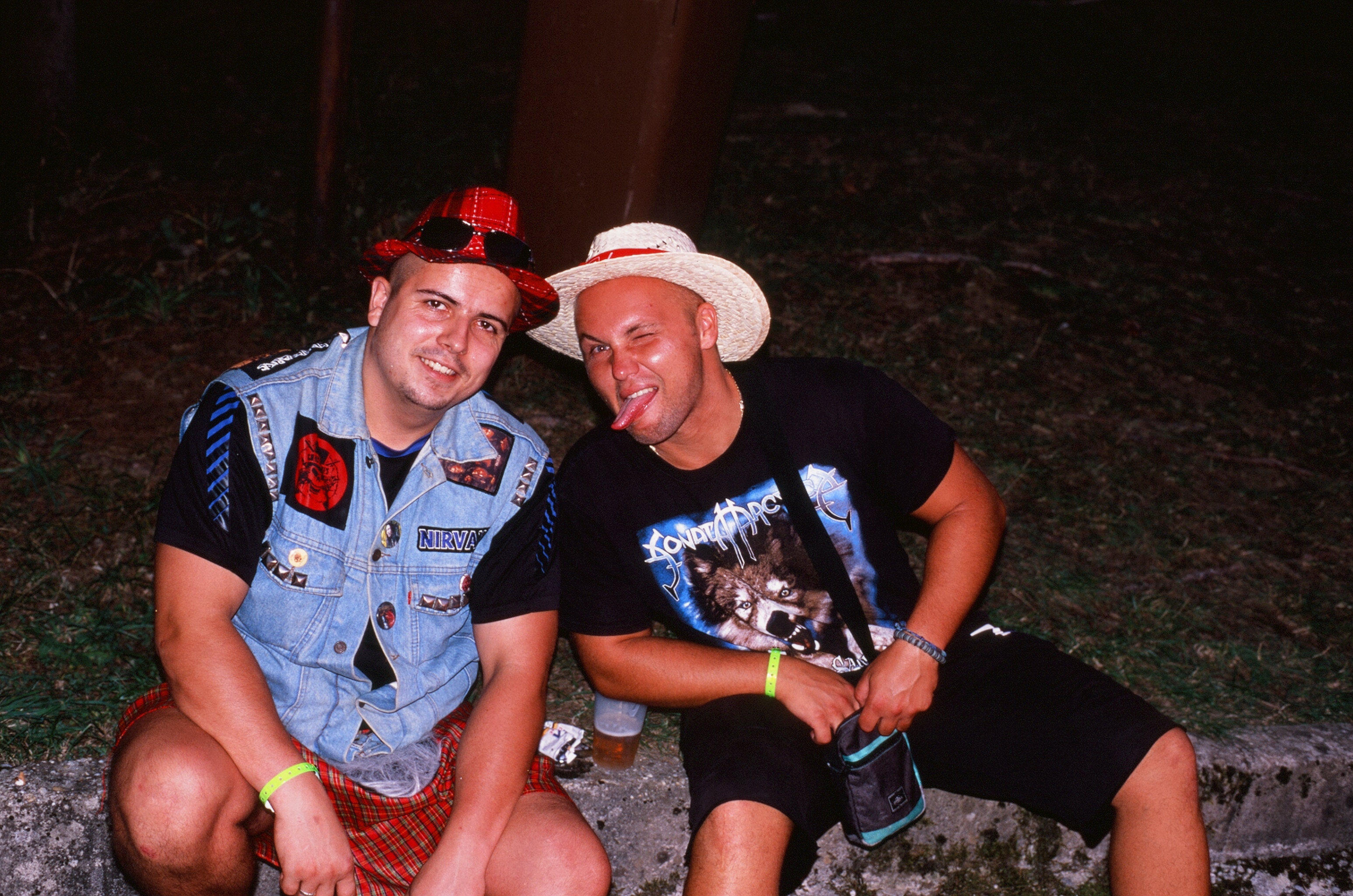 Metalheads wearing clothes typically associated with heavy metal: denim jacket with band patches and black t-shirt with band name.